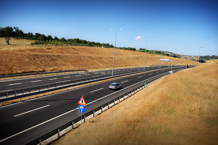 Kosovomotorway_Kosovo